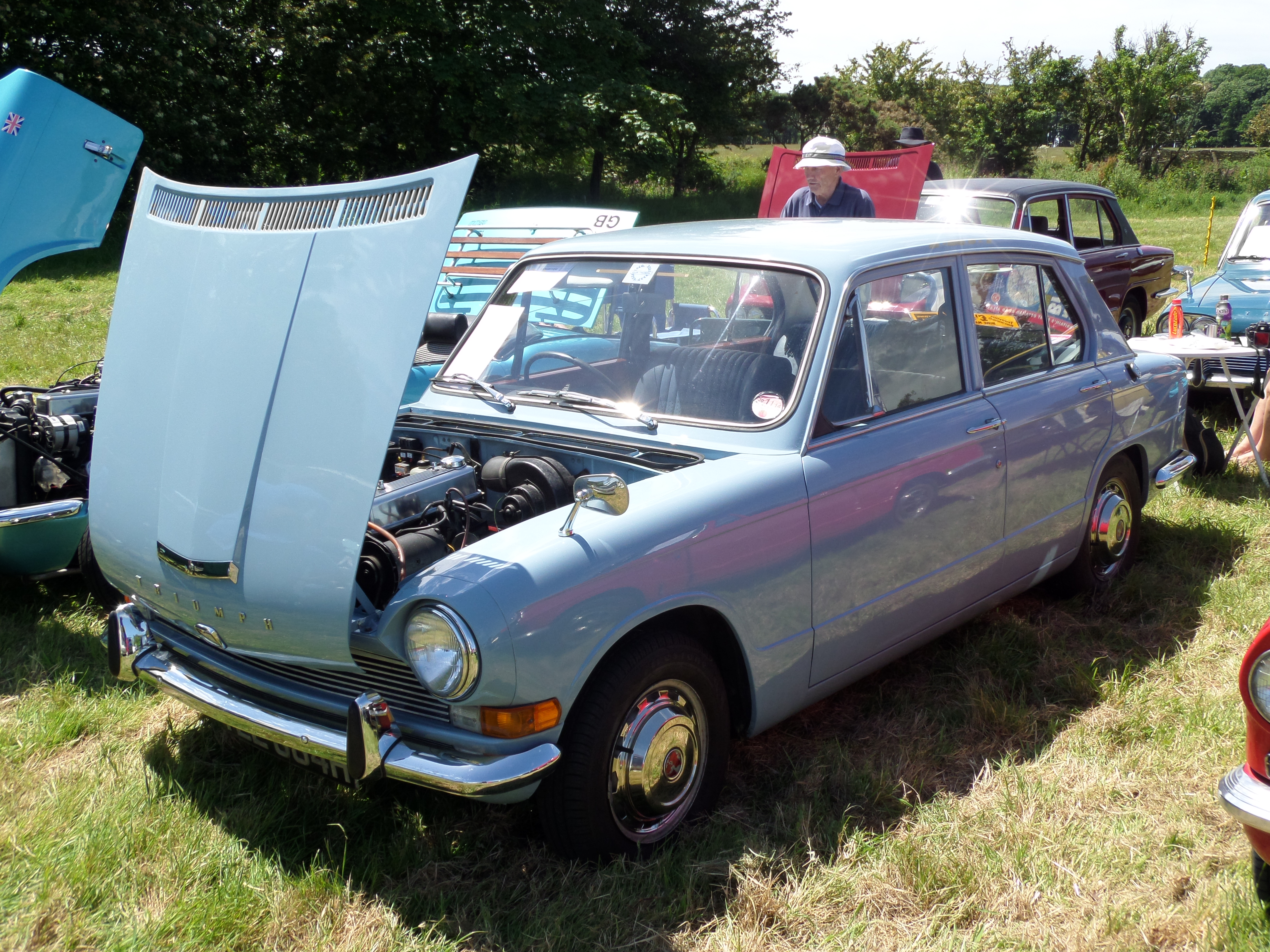 Spotted at the Wessex Car Show, Lulworth Castle, Dorset on Sunday 8th June 2014